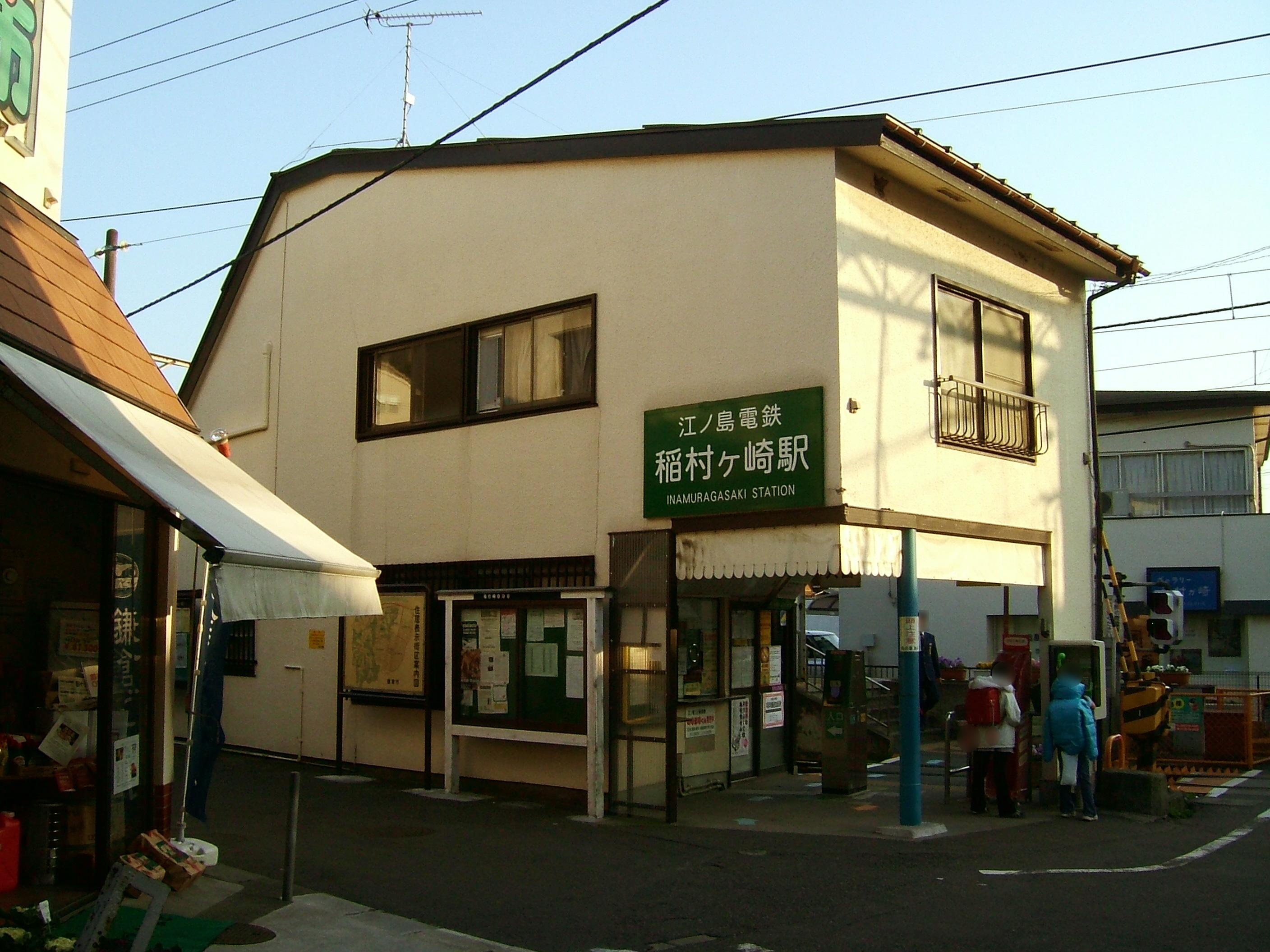 The building of Inamuragasaki Station on the Enoden Line in Kamakura city, Kanagawa prefecture, Japan